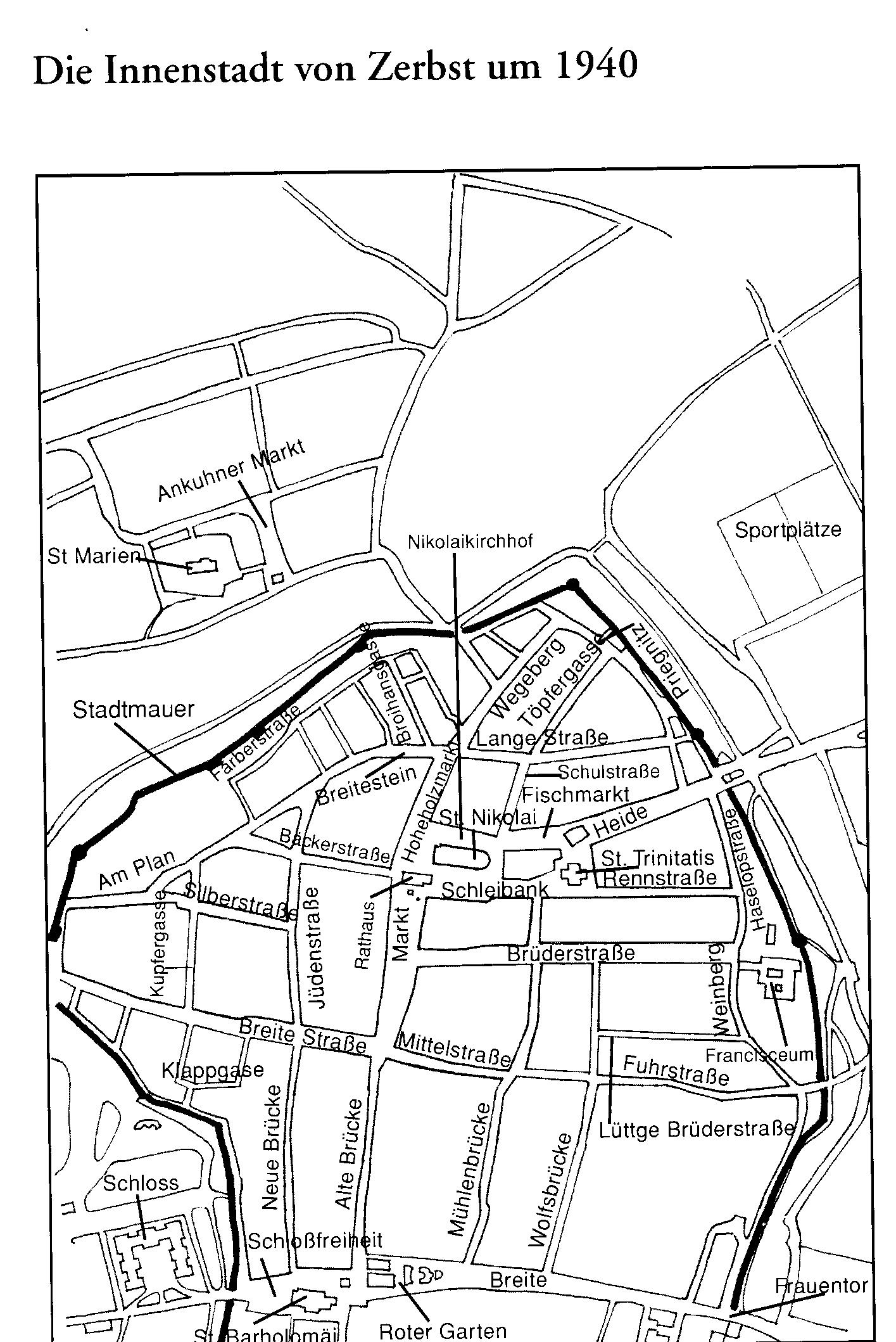 Zerbst in Saxony-Anhalt 1940